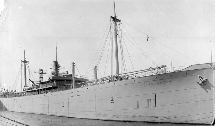 Cargo ship SS El Capitan, prior to her US Navy service as USS El Capitan (ID-1407).